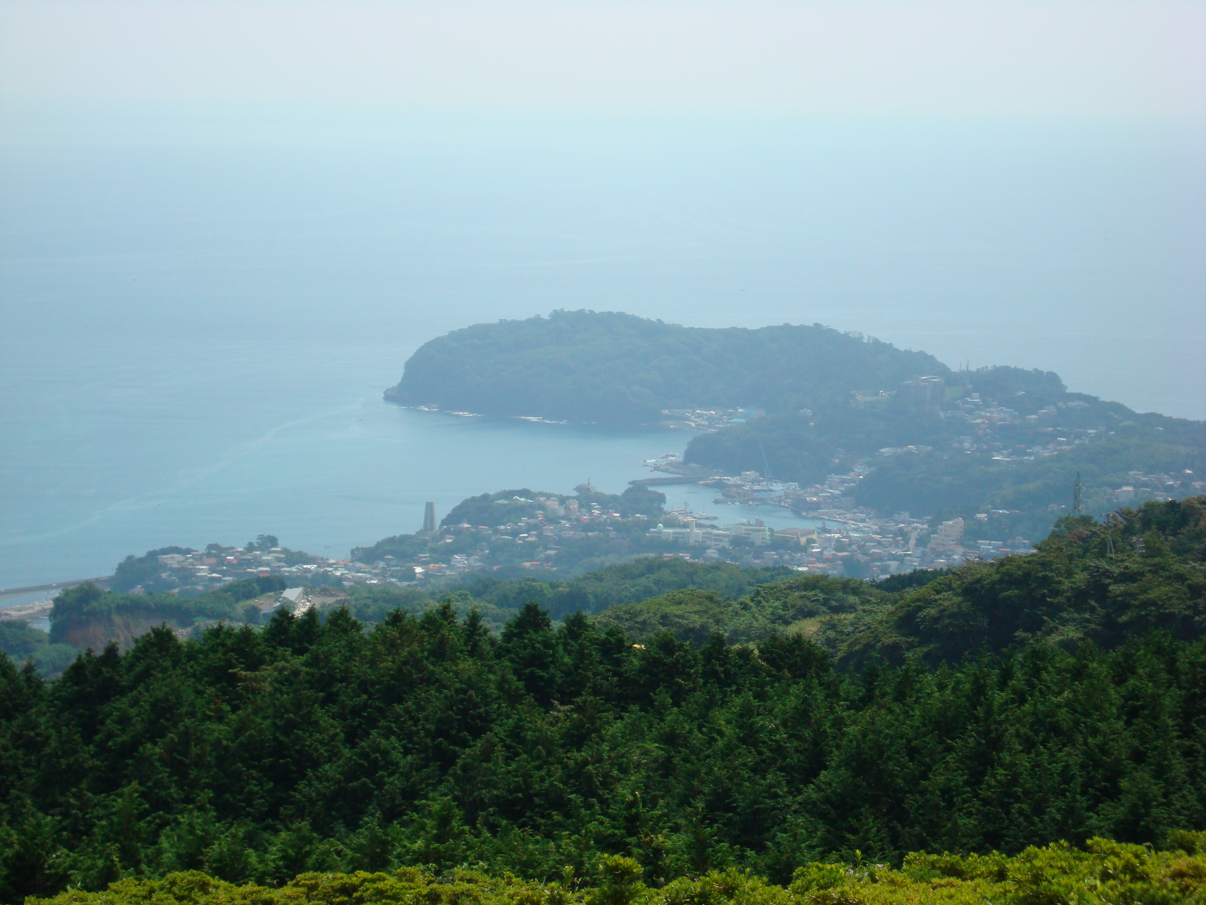 Manazuru town and Manazuru Peninsula